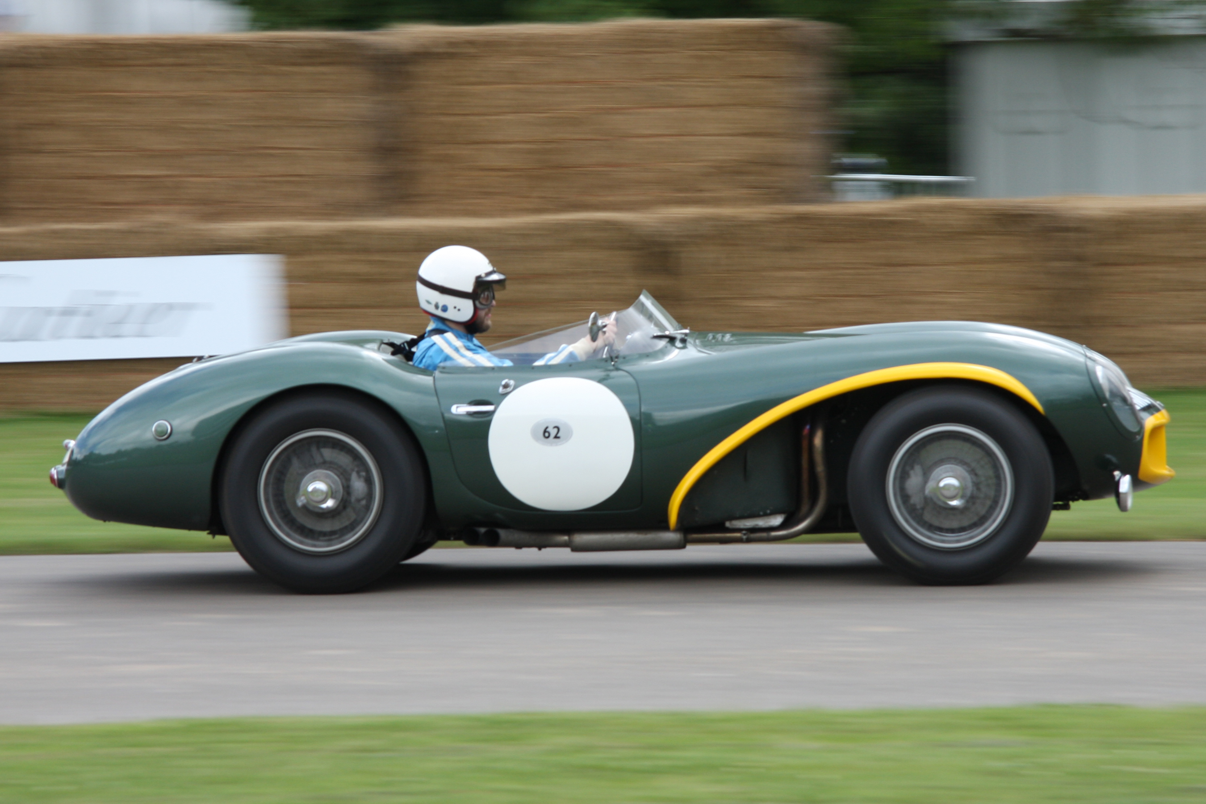 DB3S/6, registration 62EMU. Built 1954. 3.0 litre 6 cylinder. Originally a coupé, it crashed at the 1954 LeMans and was rebuilt for the 1955 season with open bodywork. Finished second at the 1955 Le Mans. It was then sold to a privateer and the car again achieved a second at Le Mans in 1958, in the ownership of the Whitehead brothers.